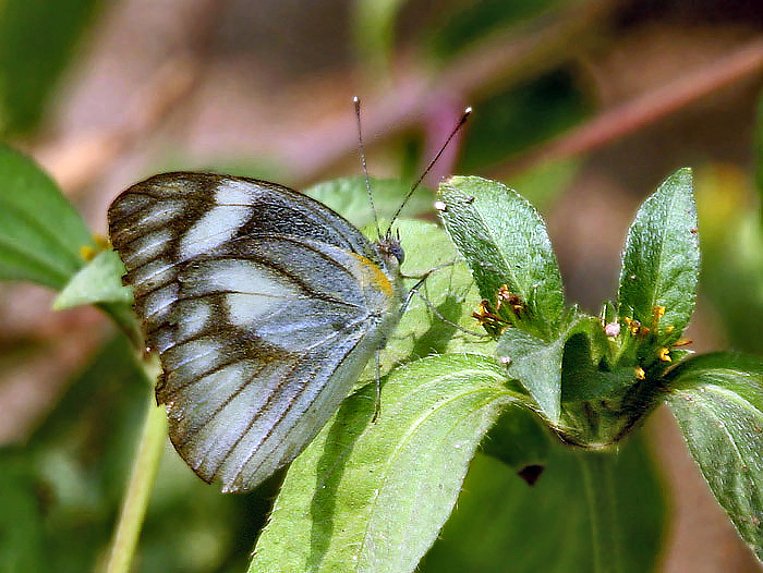 Description corrected as Eastern Striped Albatross Appias olferna- Female in Kolkata, West Bengal, India.